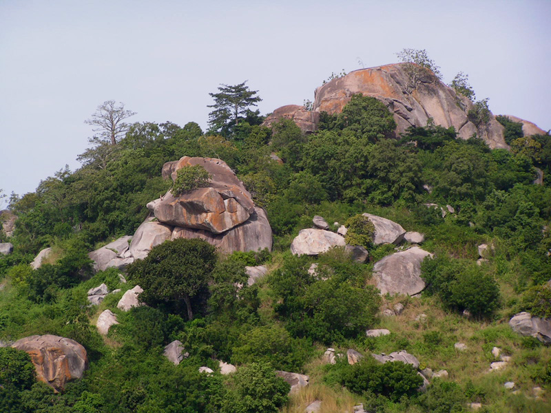 KONICA MINOLTA DIGITAL CAMERA This is an image with the theme "Play" from: Benin